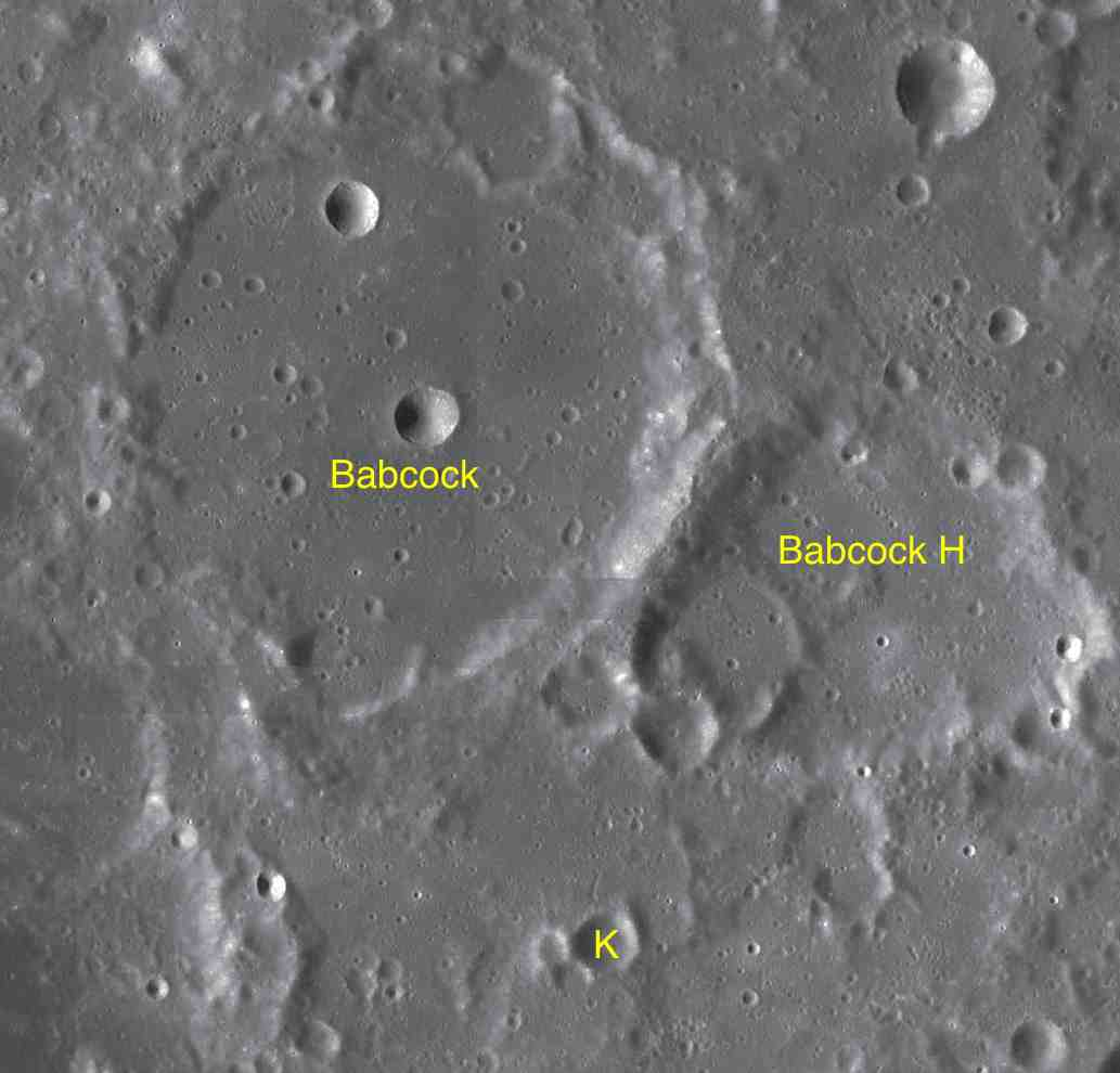 Part of the LAC-64 chart used for the presentation.